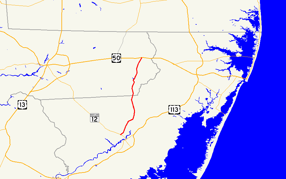 Map of Maryland 354